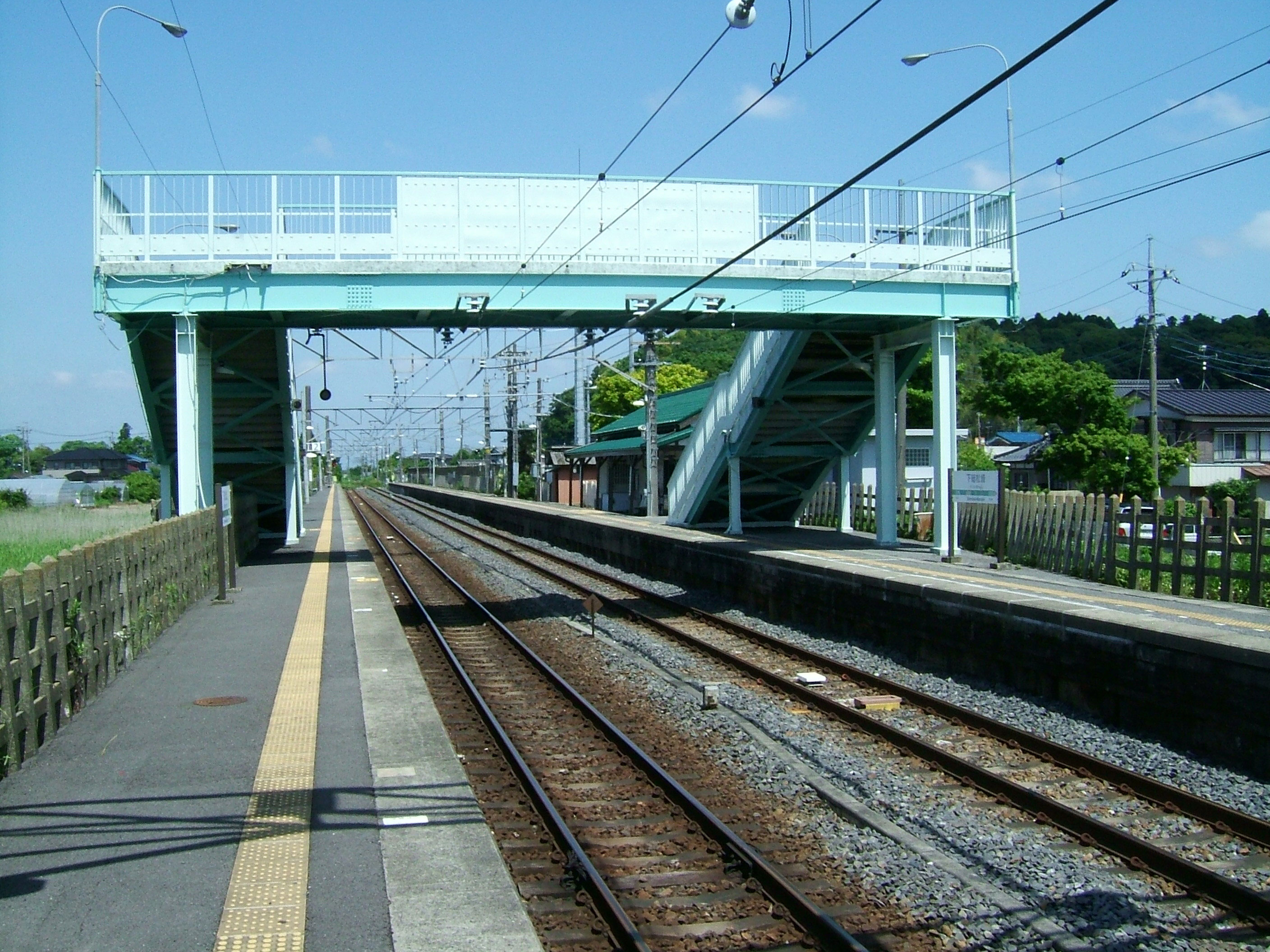 Shimousa-Manzaki Station platform (East Japan Railway Narita Line)